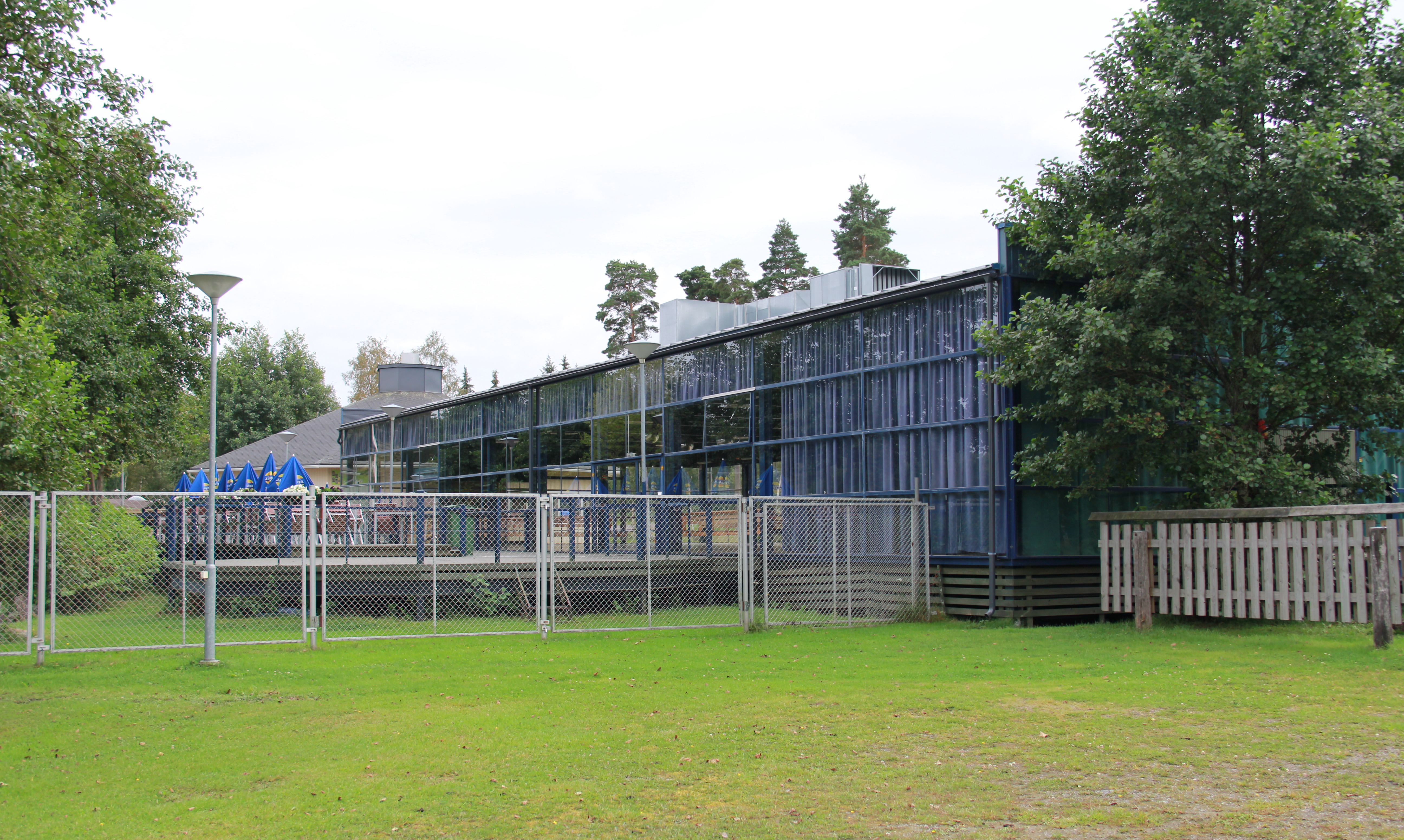 Valasranta dance hall, Yläne, Finland. Seen from the Lake Pyhäjärvi in Satakunta. Completed in 1968, architect Ola Laiho.